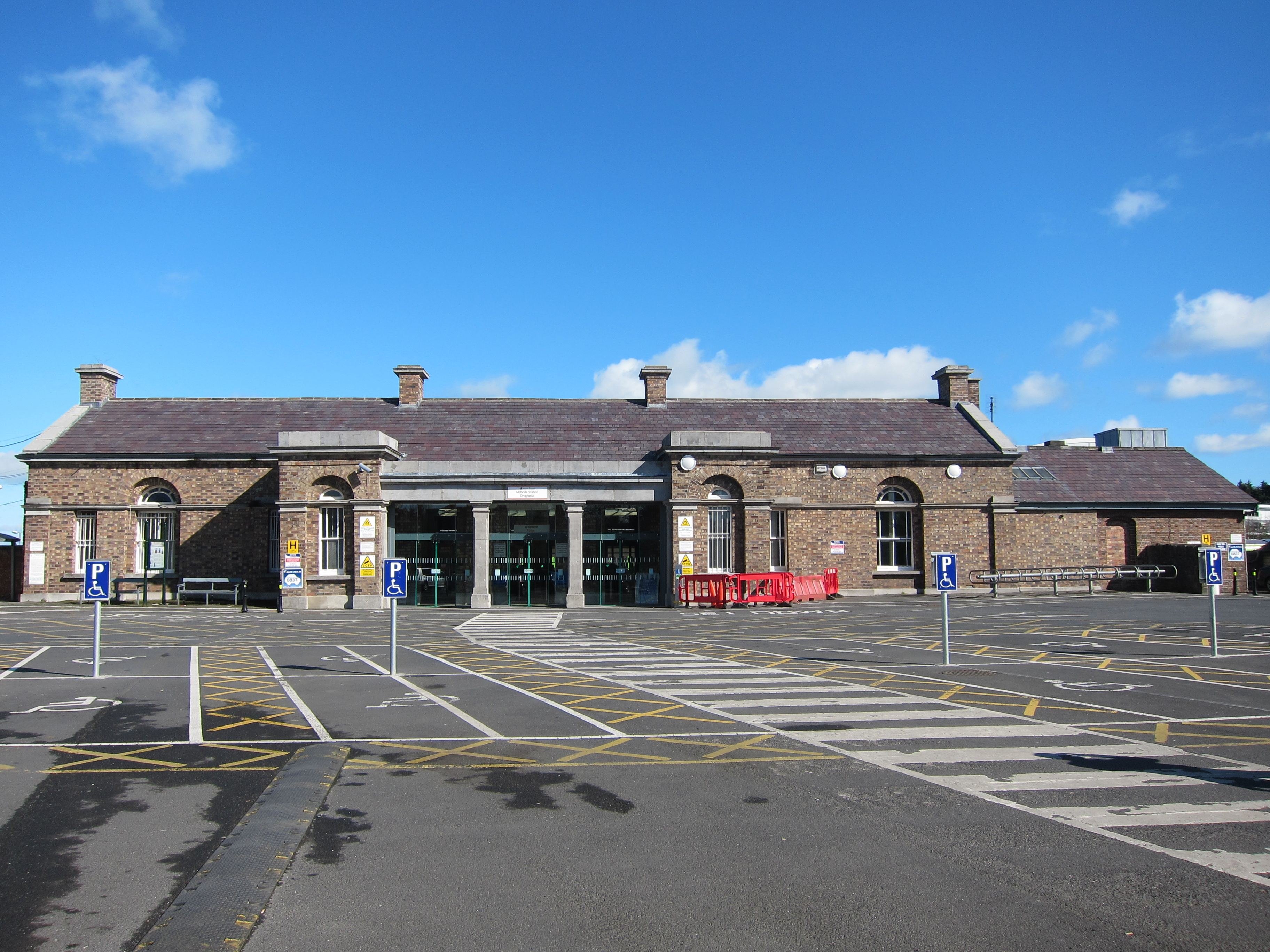 Exterior (front view, facing the parking lot) of Drogheda railway station